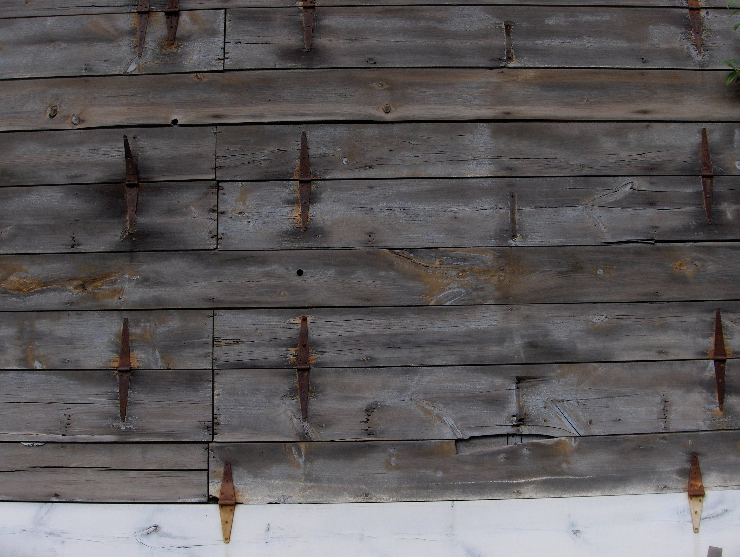 Hinge on exterior boards of a tobacco barn, allowing the boards to be opened to air dry the tobacco. This particular barn is a Connecticut Valley barn where shade tobacco used for cigar wrappers is grown.